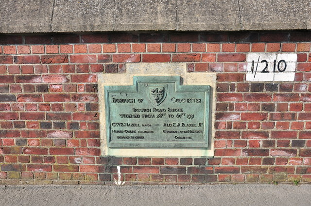 Ipswich Road Rail Bridge plaque Plaque to commemorate the widening of the bridge in 1931.